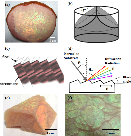 Muscle tissue of a pork loin sample displays iridescence when viewed at a specific angle. (a) The loin muscles sliced transversely to the long axes of muscle fibres. (b) Section planes of muscle tissue prepared for observing fibres from different angles. (c) A schematic of the periodicity of muscle fibres and fibrils. (d) The light interference with a diffraction grating comprising of a constant refractive index and periodicity. (e) A pyramidal cut of the muscle tissue showing the angular dependence of iridescence colours, and the prevalence of the iridescence along the sample. (f) Microscopic images of the surface of the muscle tissue illuminated at the angle θ_i to produce the maximum diffraction.